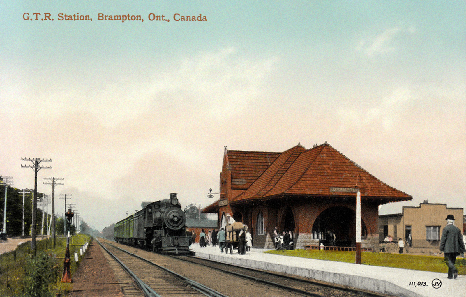 G.T.R. train station in Brampton, Ontario around 1910